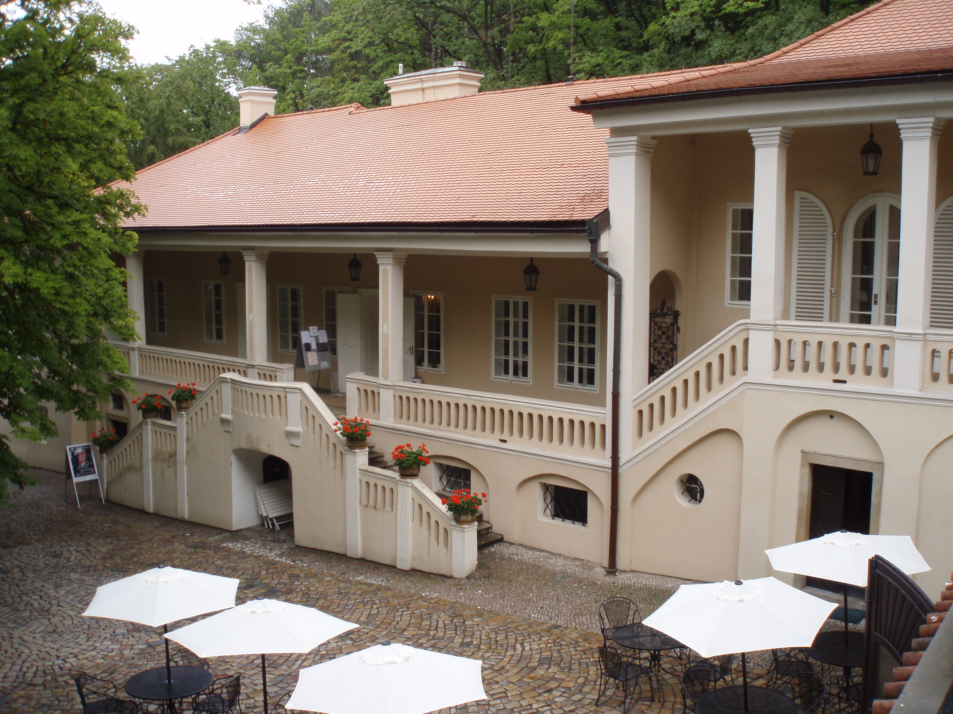 Bertramka, now a Mozart Museum, in Prague, where Mozart often stayed and where he completed his opera "Don Giovanni".